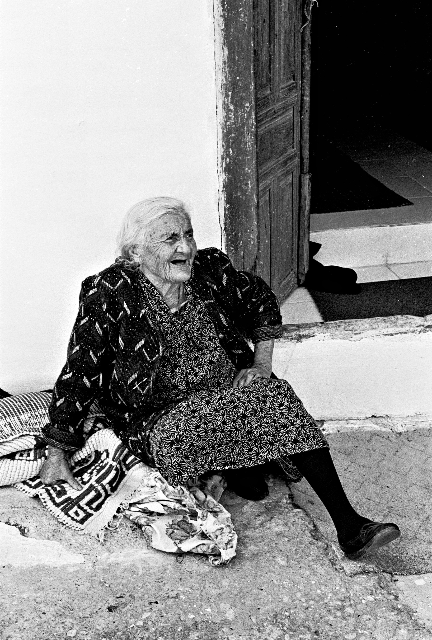 This photo was taken on August 2, 2008 in Dodekanissos, Notio Aigaio, GR.